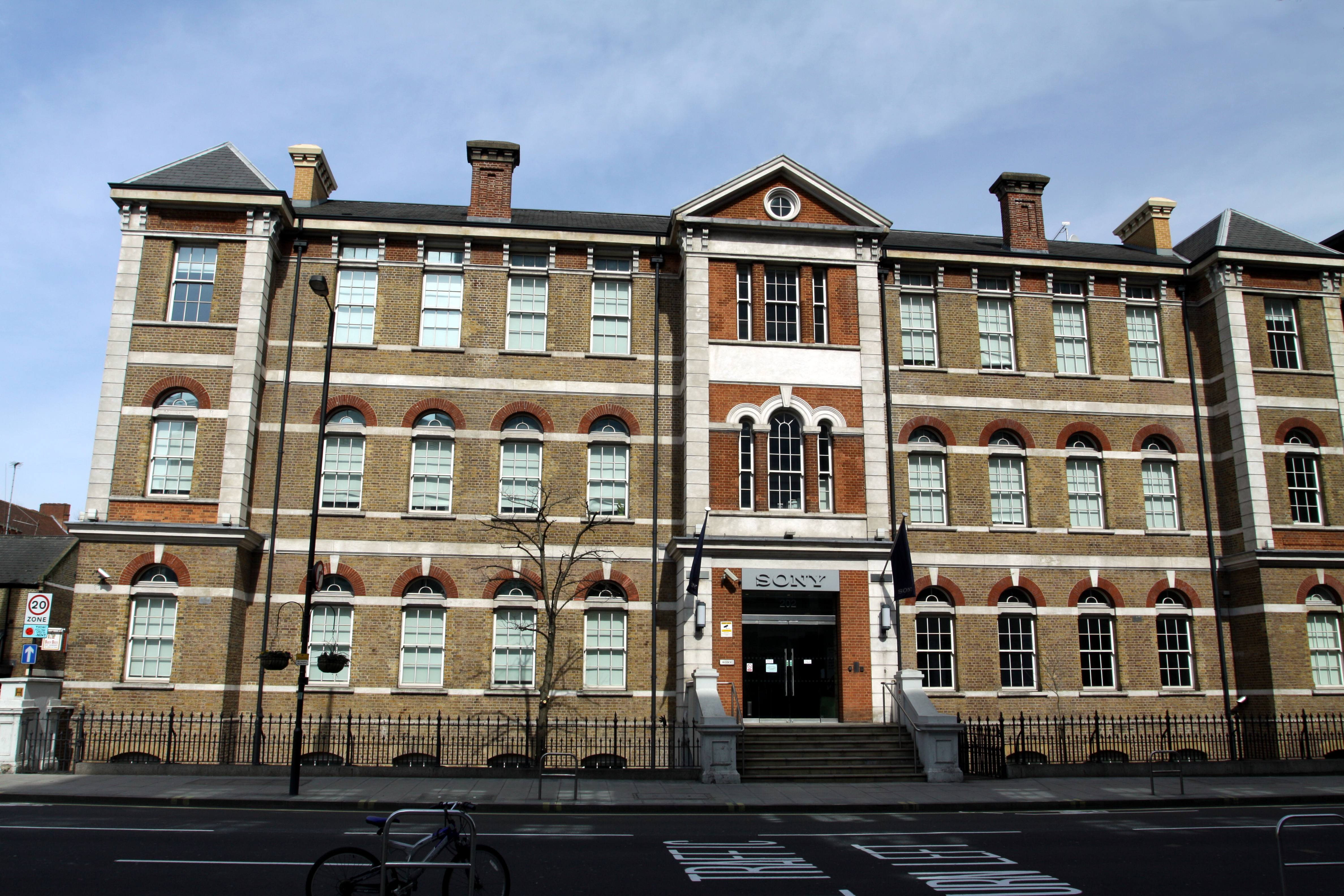 Building in Hammersmith Road in the London Borough of Hammersmith and Fulham, London, Great Britain. The making of this file was supported by Wikimedia UK.